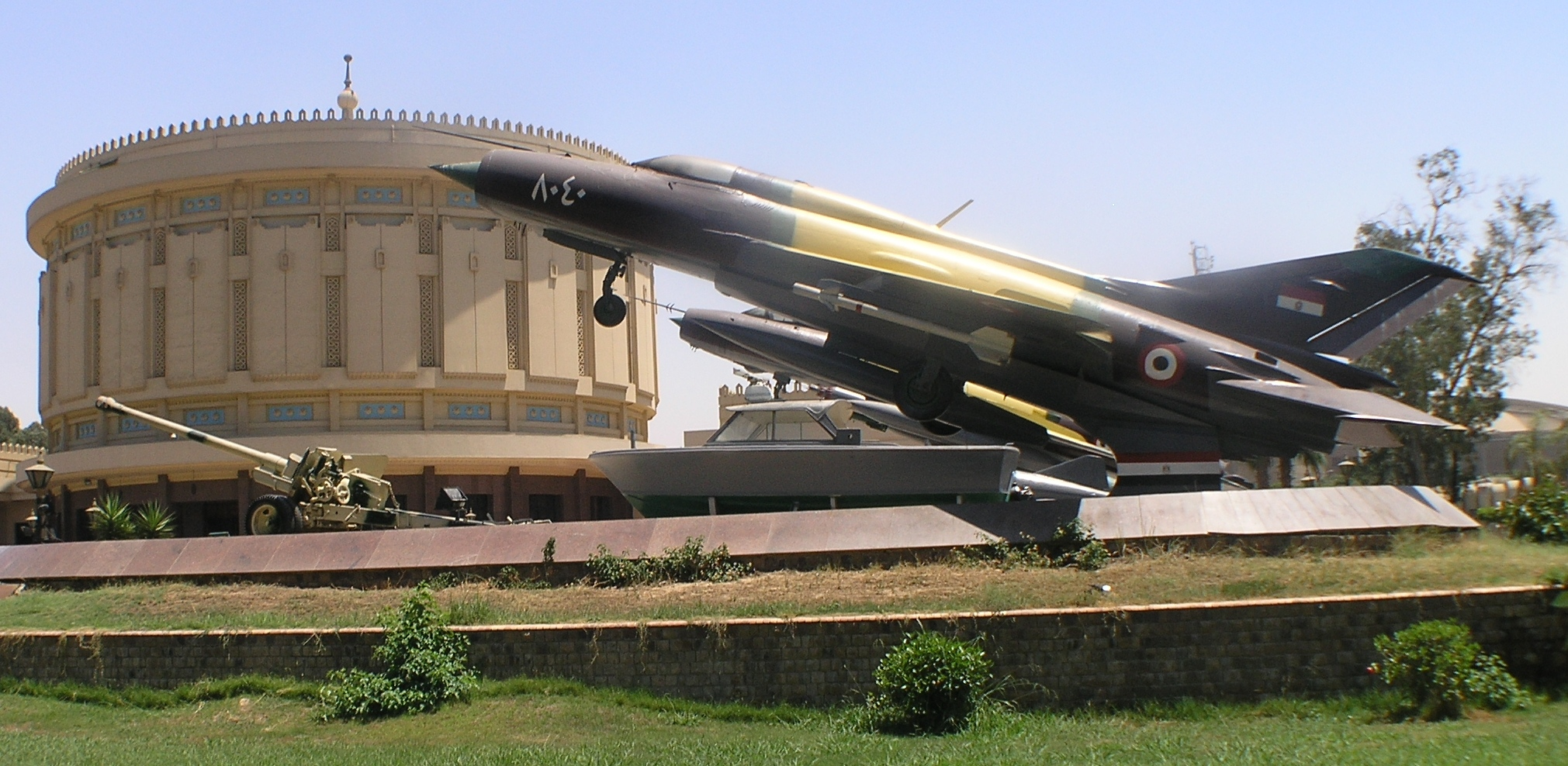 Cairo - Heliopolis - 1973 October War Panorama